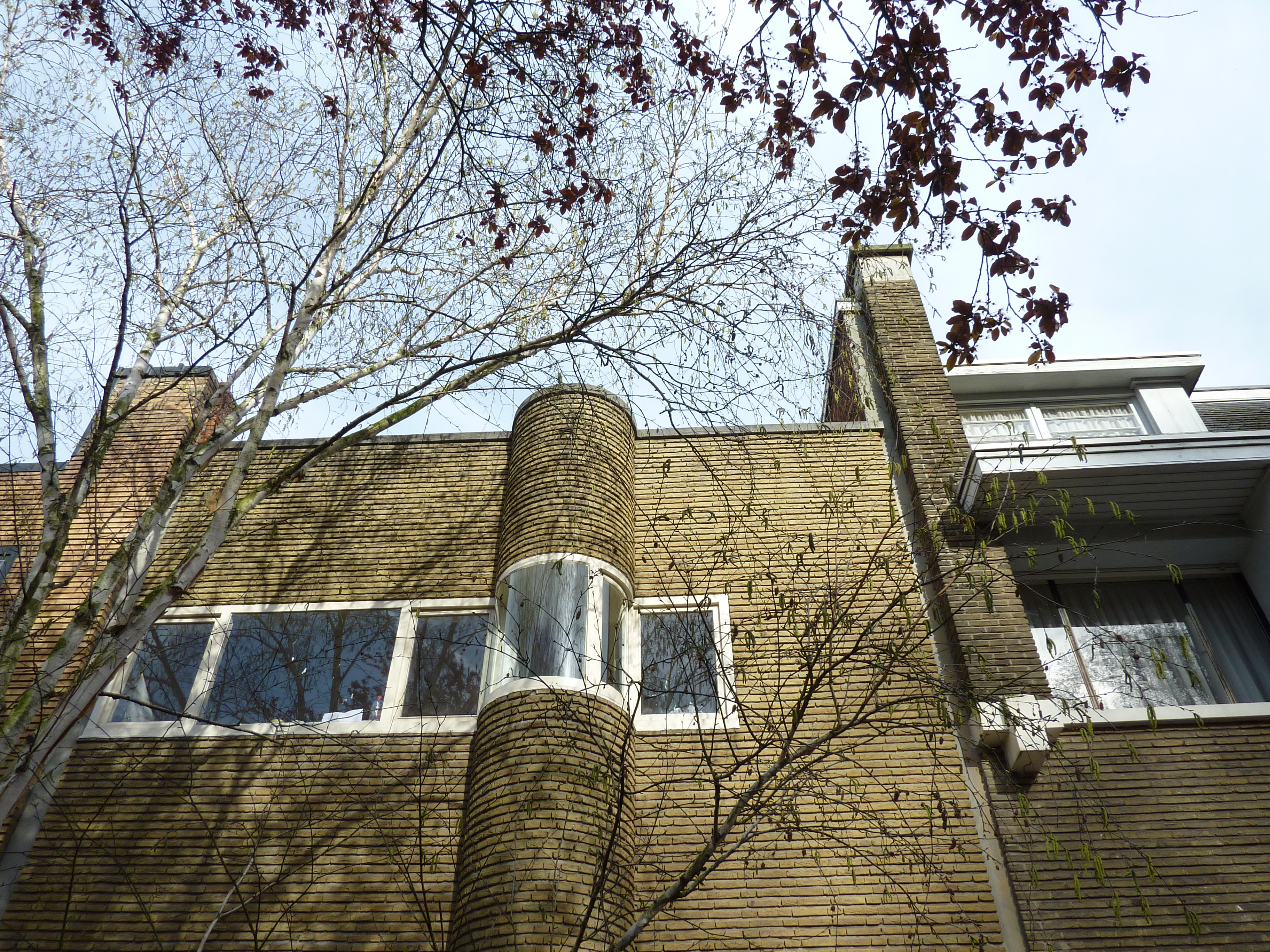 House designed by architect Walter Van den Broeck (1905-1945) for Victor Van Rossem in 1932.